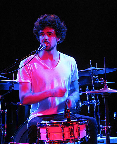 Rueben Alexander of Tarmac Adam on drums at The Saint in Asbury Park, NJ 05232013. Photo by LHCollins.